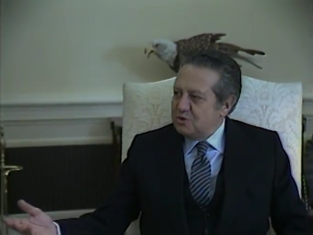 Portuguese Prime Minister Mário Soares, at the Oval Office, 14 March 1984.